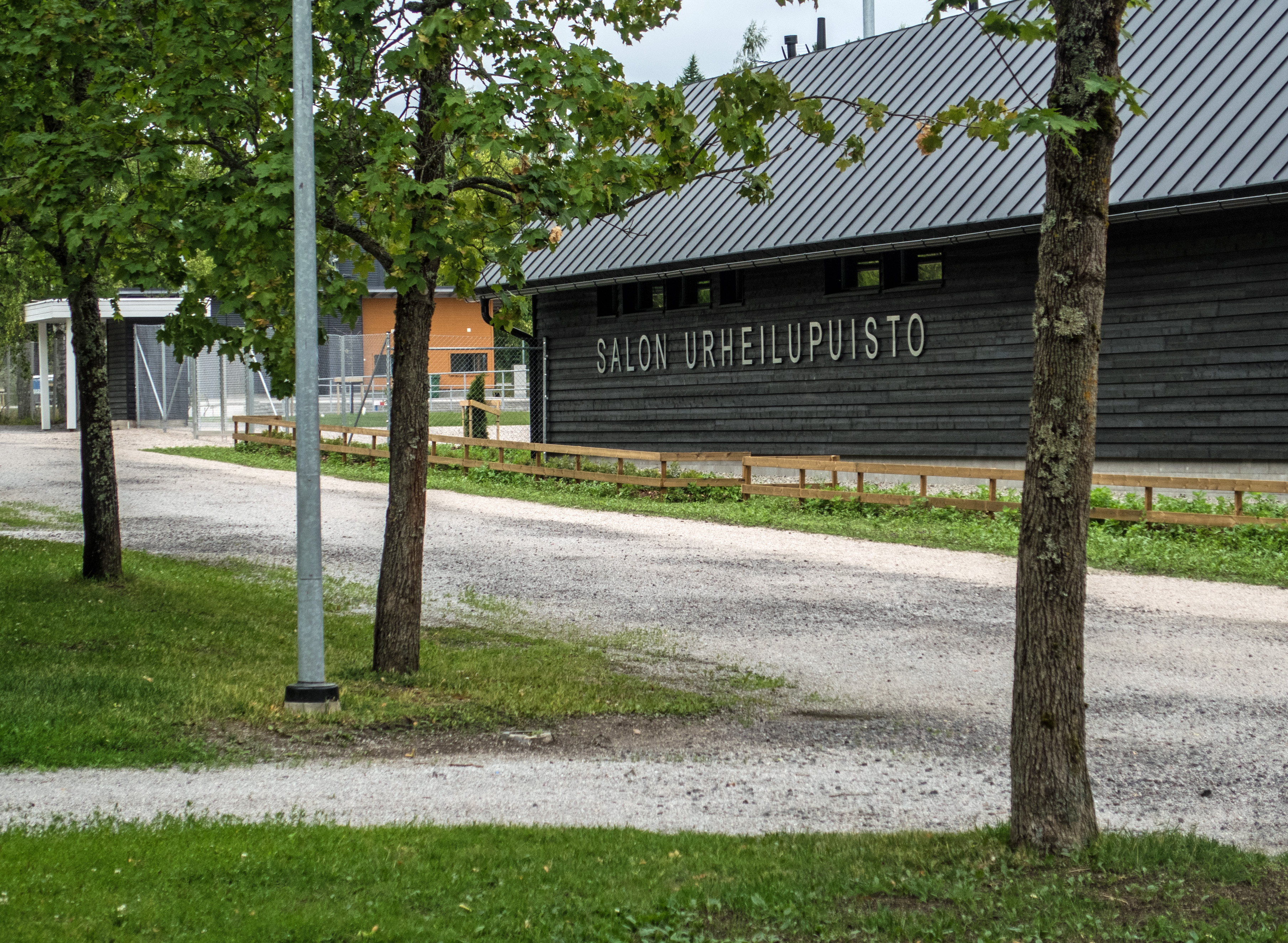 Entrance to Salo sports park